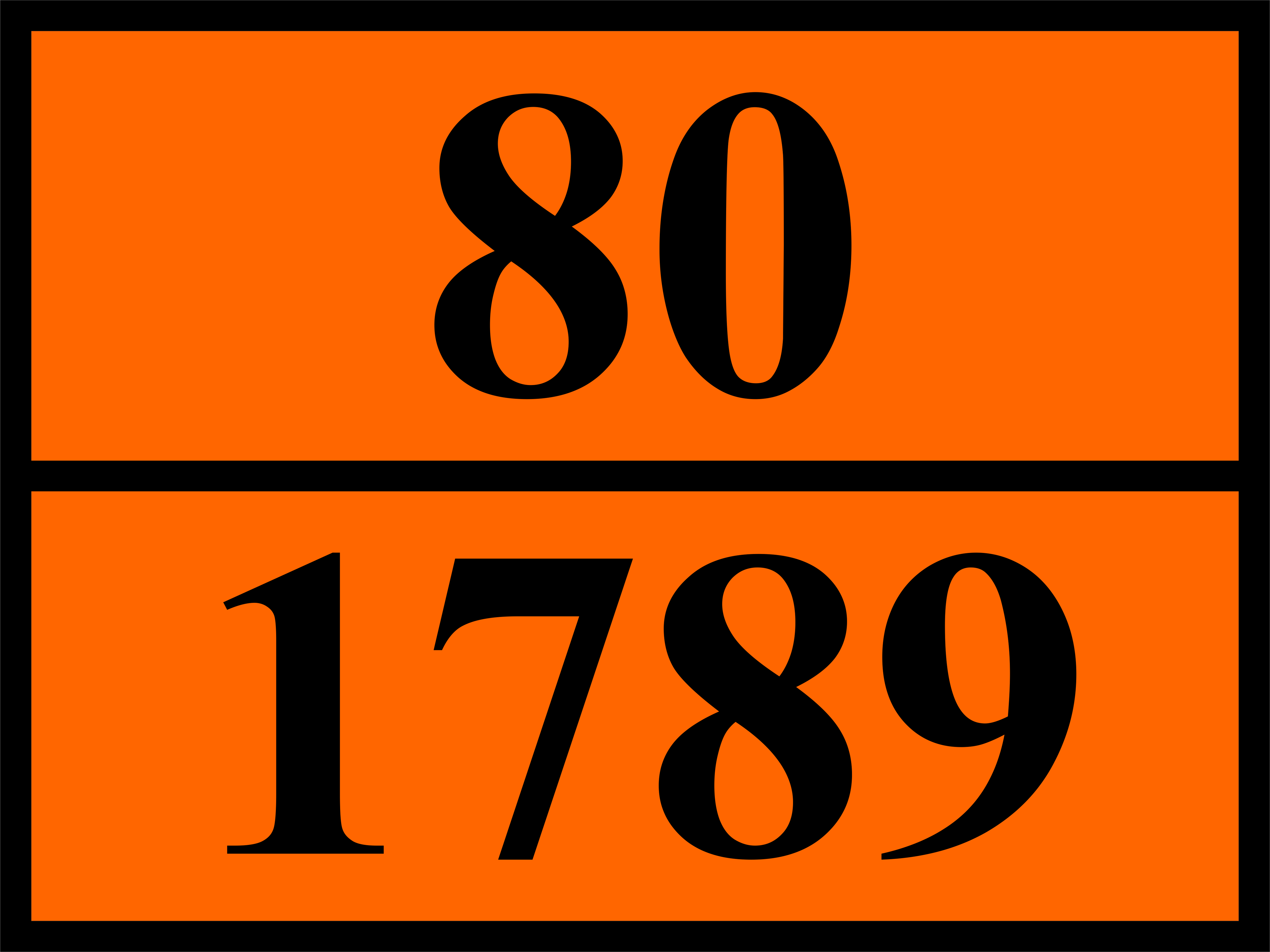 Hydrochloric acid, ADR table